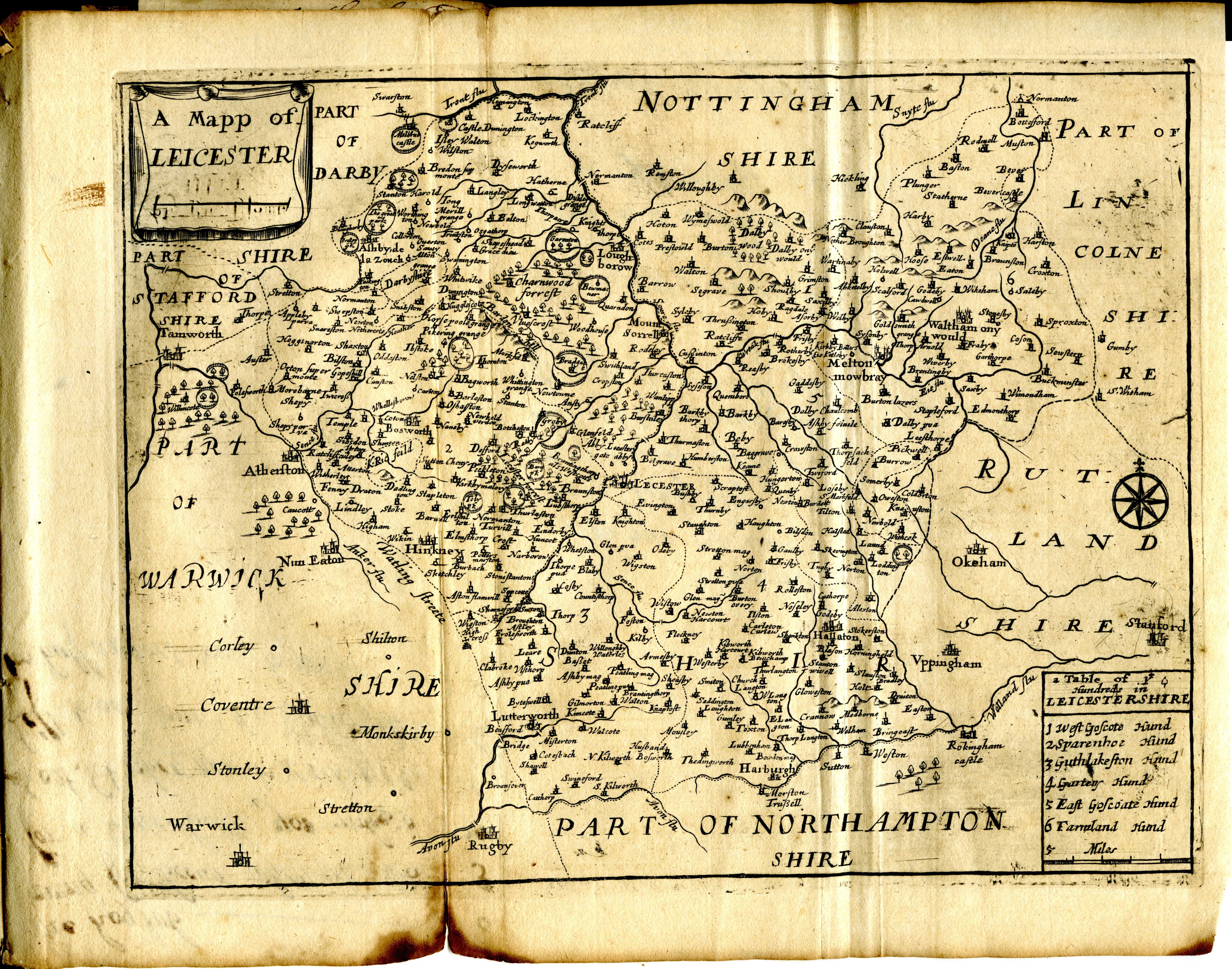 38 old maps of England folded and bound in a leather book. Most seem to have been printed from copper plates made by Richard Blome in the 1660s and 1670s. The plates were modified and Bloom's name was removed from many of the plates before this set of maps was printed at a later date. Most of the plates measured 9 x 7-1/2 inches. Book was found in New Jersey, USA. Please note that I know nothing about old maps. The backs of the maps was used as a notebook/ledger in 1726. I have posted some images of the ledger. Some of the names and dates found on these maps are: Richard Blome W. Hollar secit R. P. sculp Richard Palmer 1667 1670 1671 1672 Right click on the image and select "original" to see a high resolution image. Update: This appears to be "England Exactly Described" published by Thomas Taylor in 1715. From: "Taylor was also responsible for the publication of several maps including England exactly described [...] in 1715 containing maps of the English counties which had been issued previously in Speed's Maps Epitomiz'd in 1681 and in other works. "